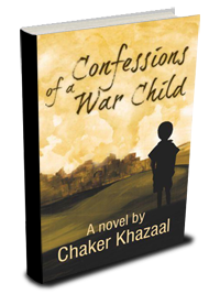 CONFESSIONS OF A WAR CHILD (PART ONE) for the author Chaker Khazaal.